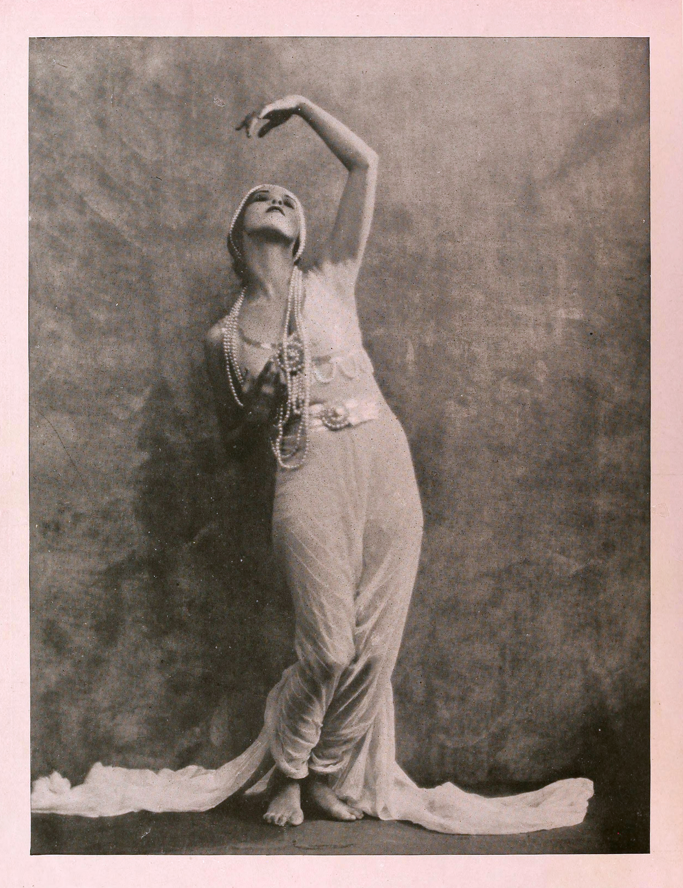 Portrait of Martha Graham by Nickolas Muray